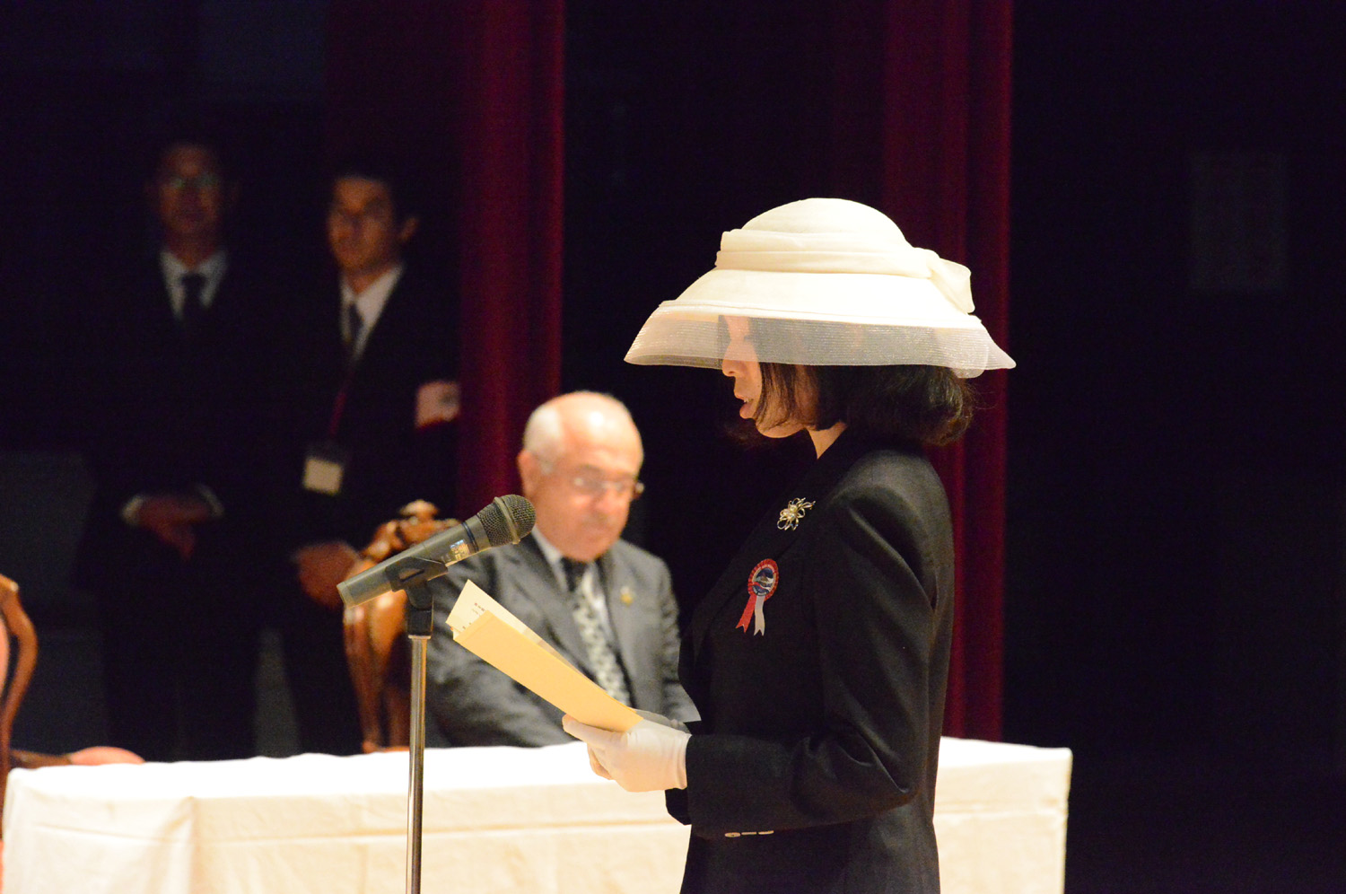 Princess Akiko attended the ceremony to commemorate victims of the Frigate Ertuğrul Disaster at Kushimoto Town Cultural Center in Kushimoto Town, Higashimuro District, Wakayama Prefecture on June 3, 2015.